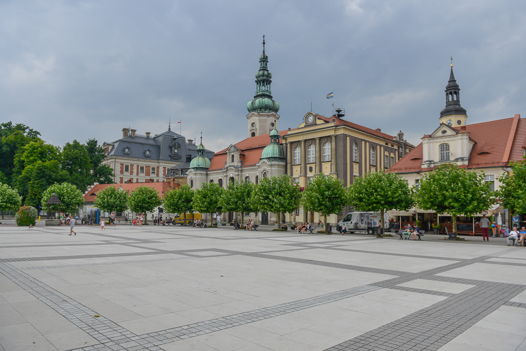 Main square, old market in Pszczyna, silesian voivodeship, Poland